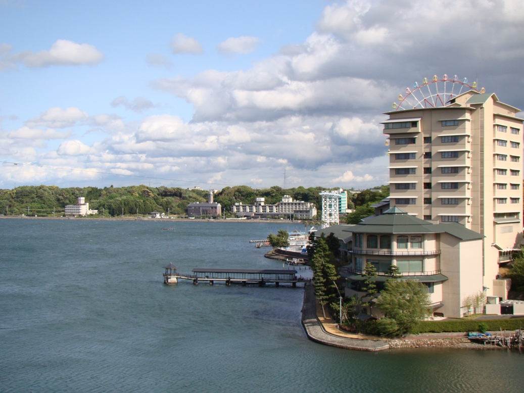 Kanzanji hot spring and lake Hamana in Hamamatsu-city Shizuoka Japan